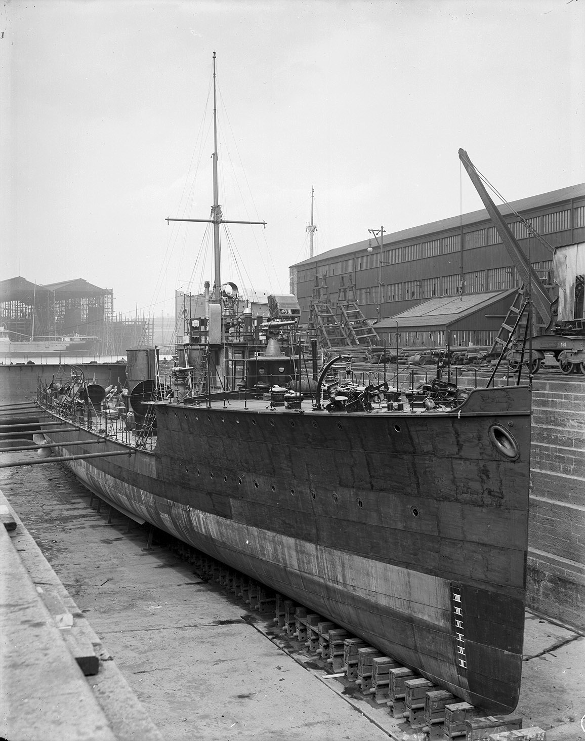 View of the destroyer HMS Boyne in dry dock at the shipyard of Hawthorn Leslie, Hebburn, 1904 (TWAM ref. 2931 Misc57). HMS Boyne was a River Class destroyer launched by Hawthorn Leslie on 12 September 1904. During the early part of the First World War she carried out anti-submarine work as part of the 9th Destroyer Flotilla. From August 1915 onwards HMS Boyne belonged to the 7th Destroyer Flotilla based on the River Humber. The shipyard of R. & W. Hawthorn Leslie at Hebburn built many fine warships. During the First World War the firm built 2 light cruisers, 3 destroyer leaders and 25 torpedo boat destroyers. The firm also built machinery and boilers for 2 battleships, and a further 3 light cruisers. These and other warships built by Hawthorn Leslie before the War, are remembered in this set. There are remarkable images of warships under construction at Hebburn, as well as fascinating shots of the people who attended the launches. The set also contains majestic views of the ships at sea. The images are not only a testimony to the skill of those who designed and built these ships but also to the courage of those who sailed in them. (Copyright) We're happy for you to share these digital images within the spirit of The Commons. Please cite 'Tyne & Wear Archives & Museums' when reusing. Certain restrictions on high quality reproductions and commercial use of the original physical version apply though; if you're unsure please